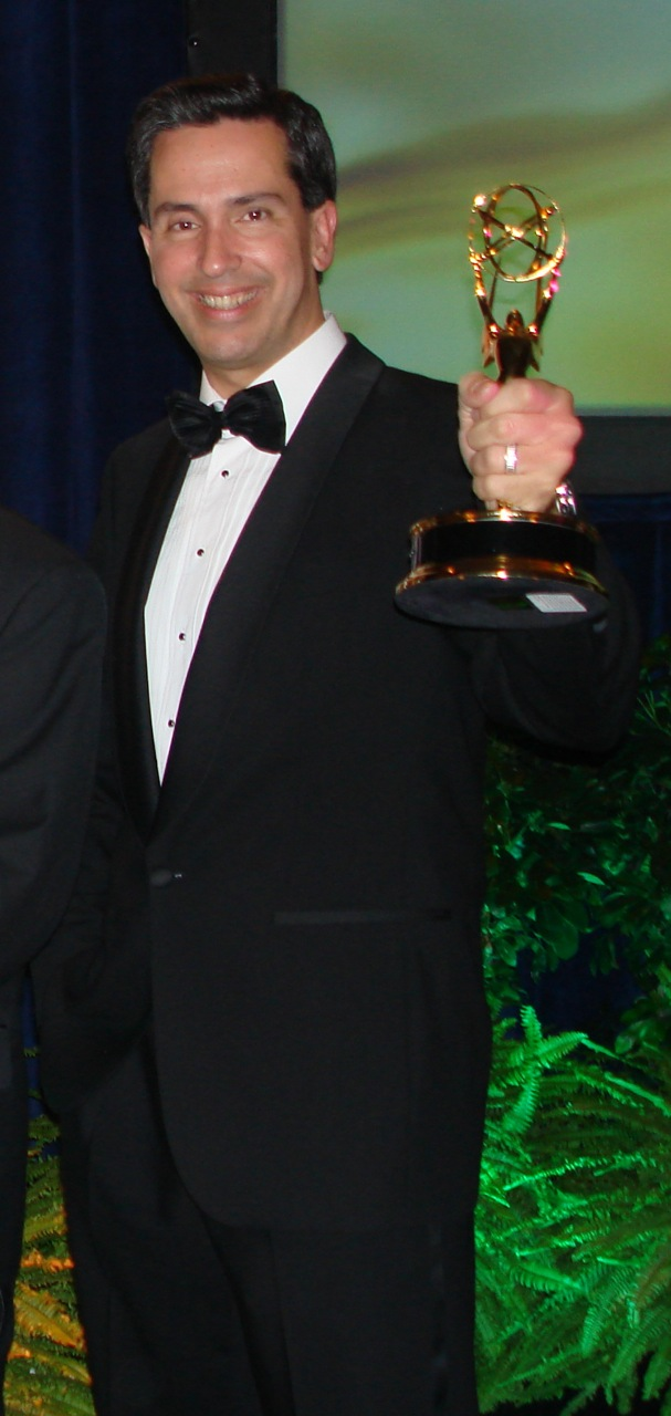 Pictures of Heri Martinez de Dios, 2007 Emmy Awards Winner